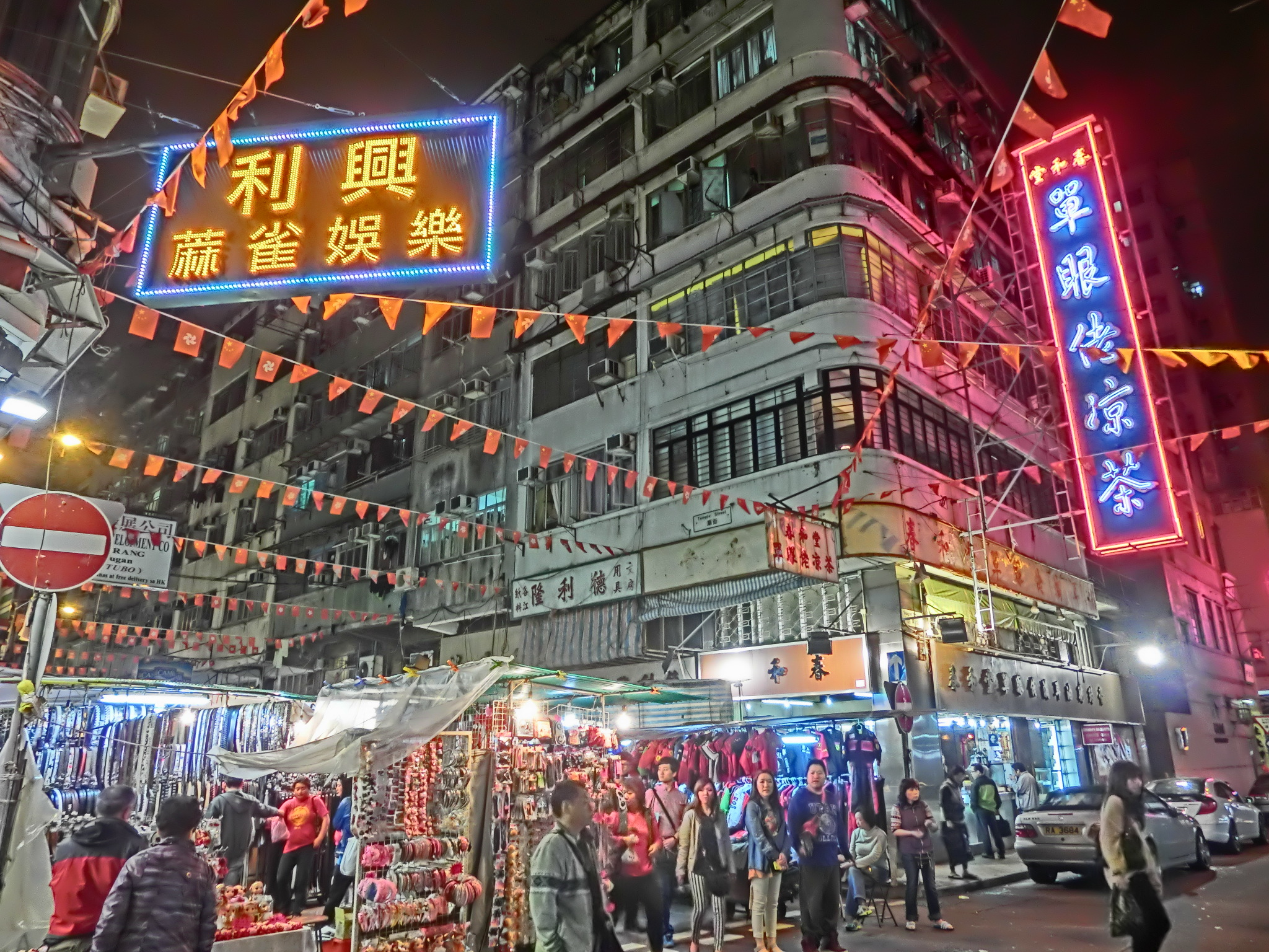 Night in Temple Street, Yau Ma Tei, Hong Kong